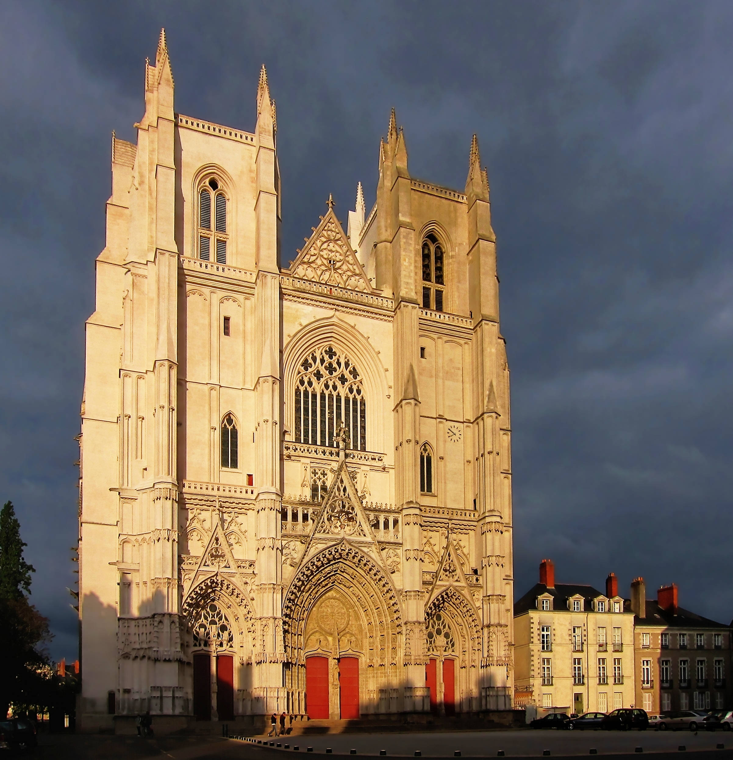 Saint-Pierre cathedral in Nantes